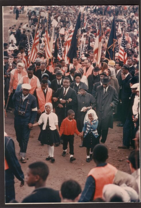 SELMA TO MONTGOMERY MARCH - the last day as the Marchers leave St. Jude's and March to the Alabama State Capitol.